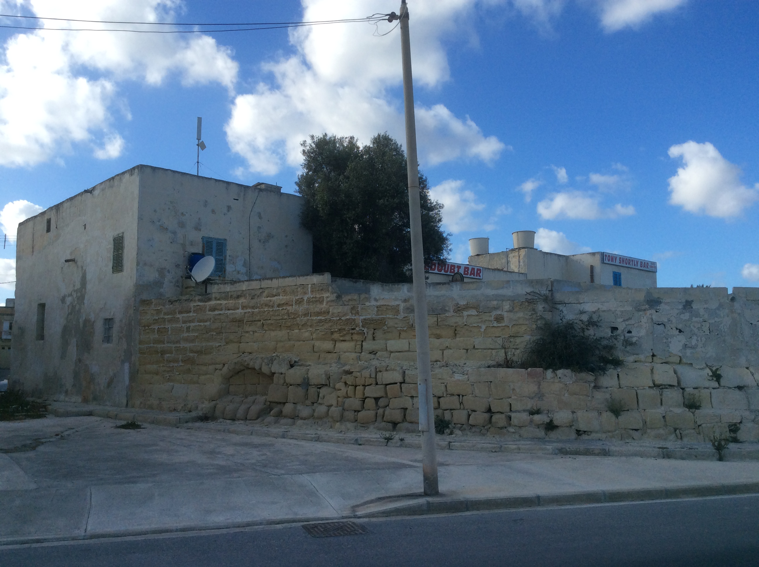 Pinto battery side